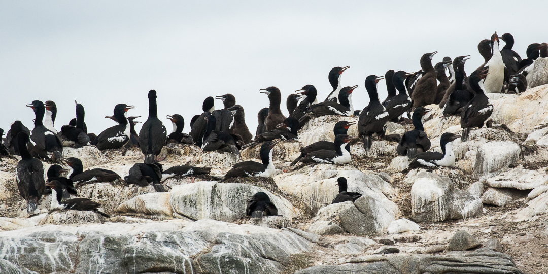 Stewart Island Shag colony - Stewart Island - New ZealandFJ0A7269